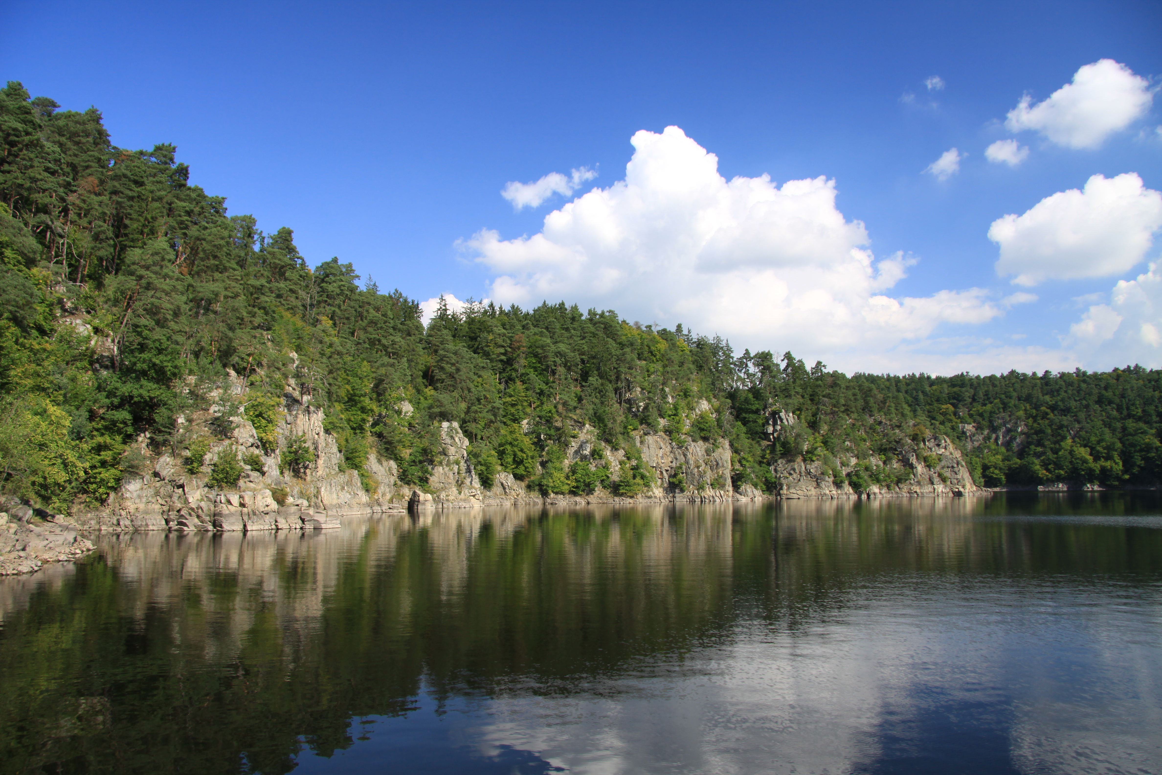 Natural monument Kopaniny in Písek District, Czech Republic.